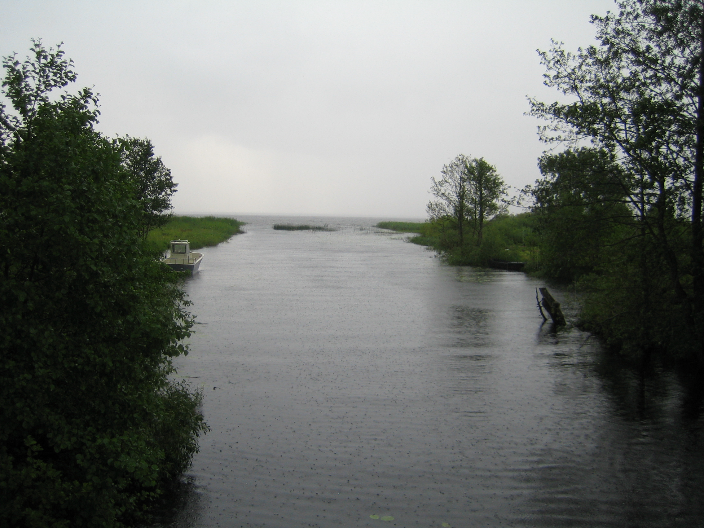 Piilsi river in Kalmaküla, Lohusuu Parish, EstoniaEesti: Piilsi jõgi suubub Peipsi järve